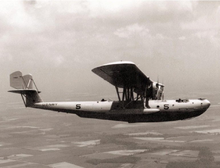 A U.S. Navy Martin P3M in flight in the early 1930s.